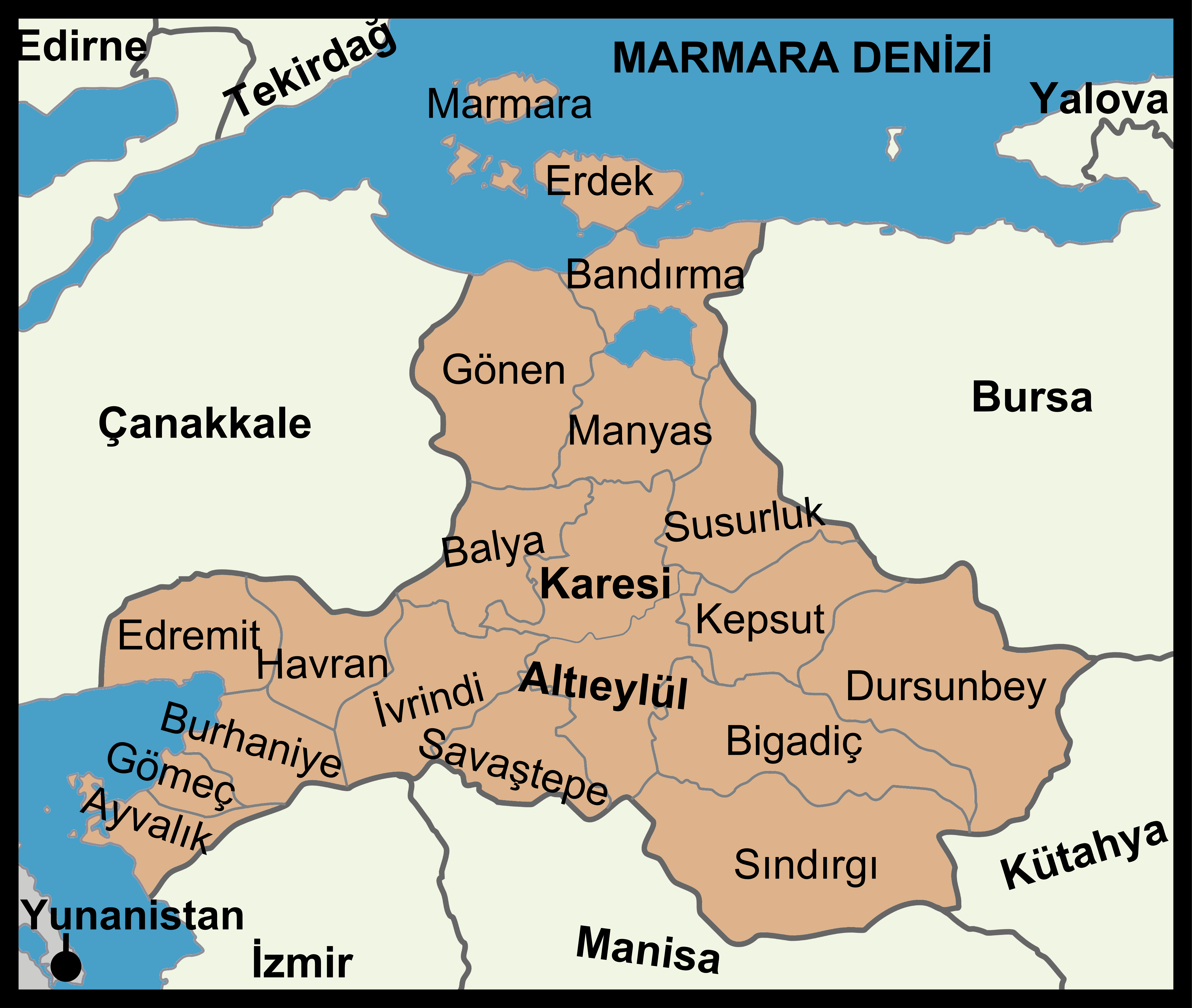 Map of the districts of Balıkesir Province, Turkey.